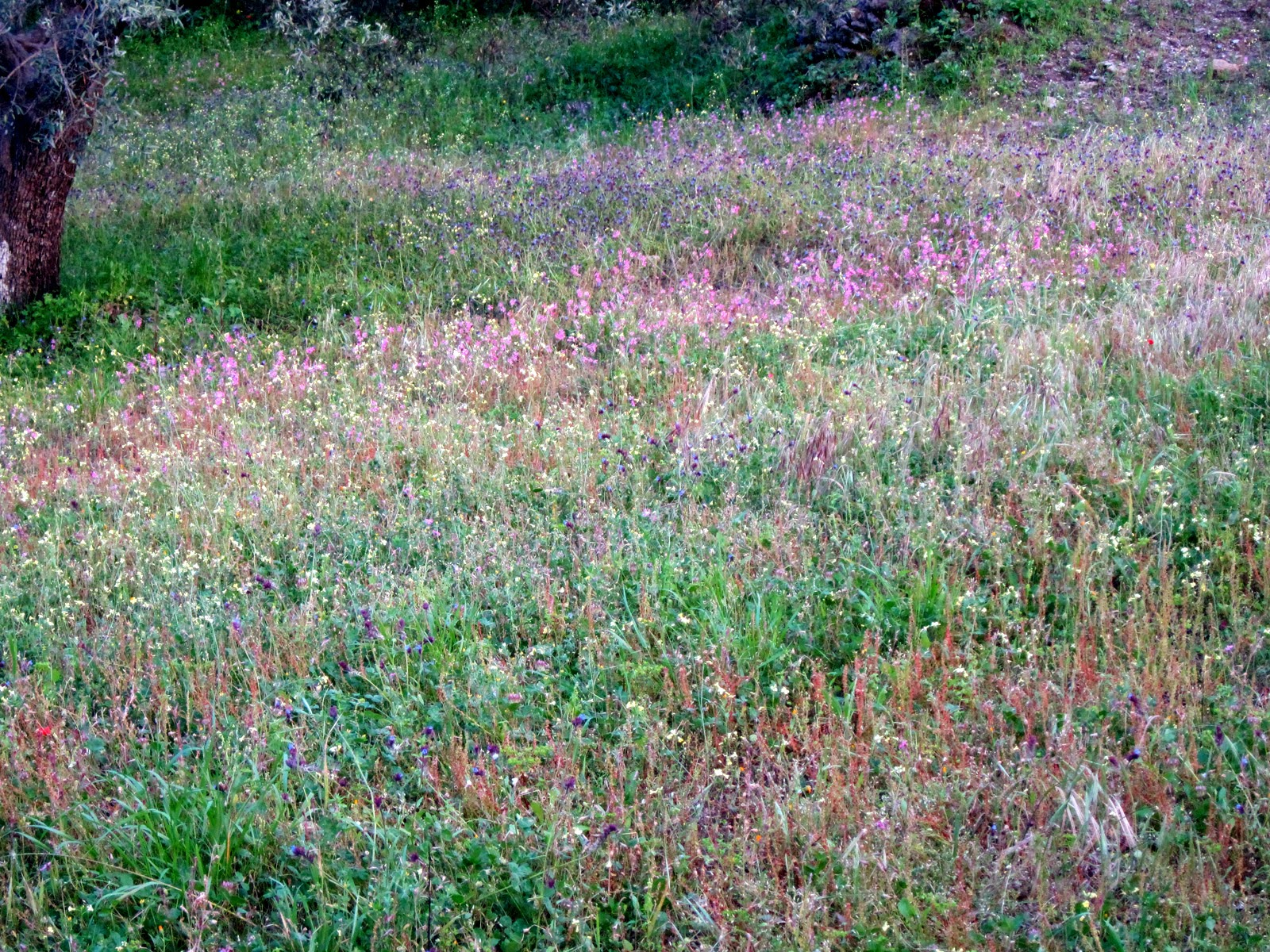 Flowery field in front of Chiesa dell'Assunzione. Casabona, Calabria, Italy.